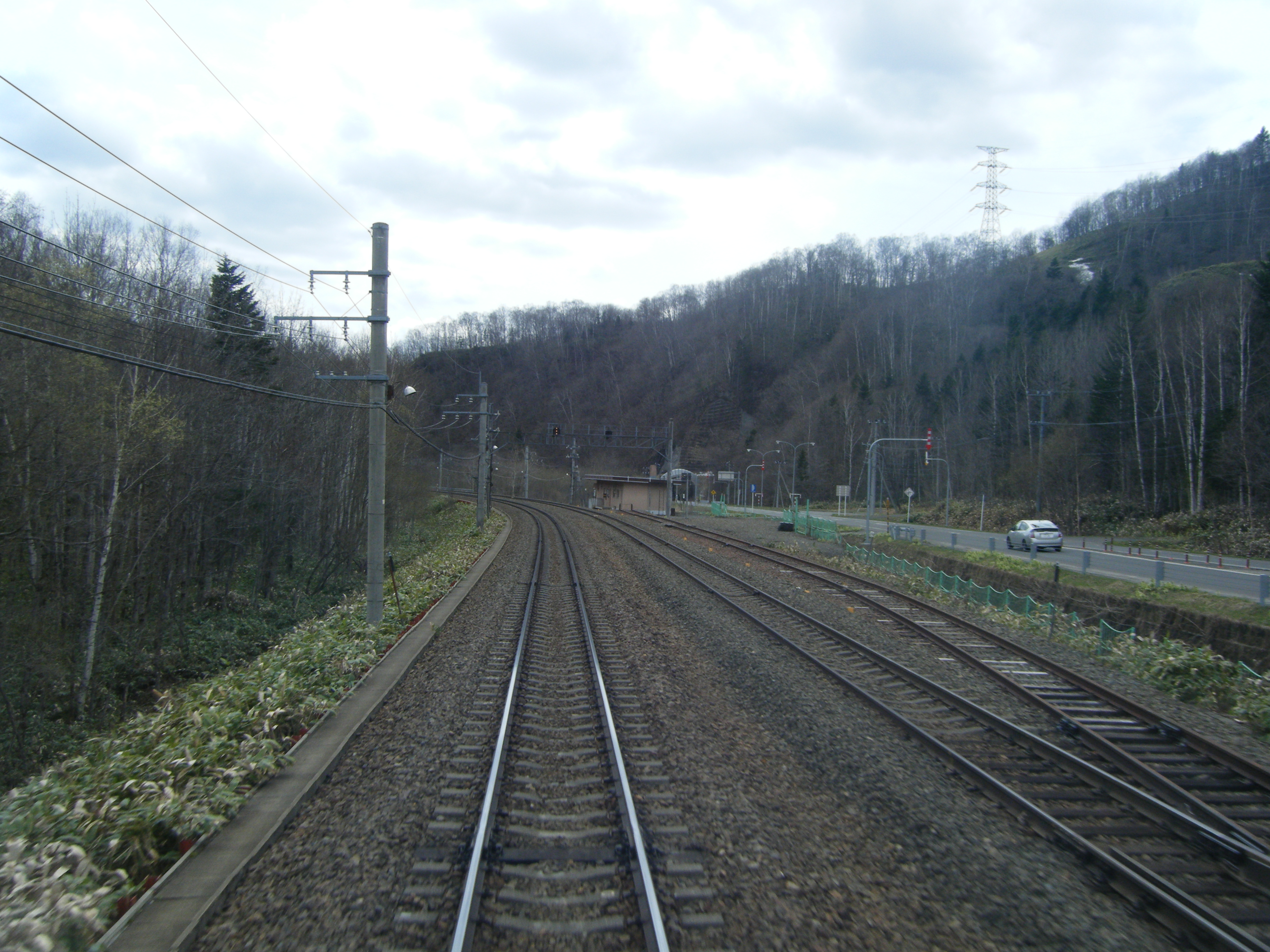 Takinosawa Signal Base viewed from Super Ozora train